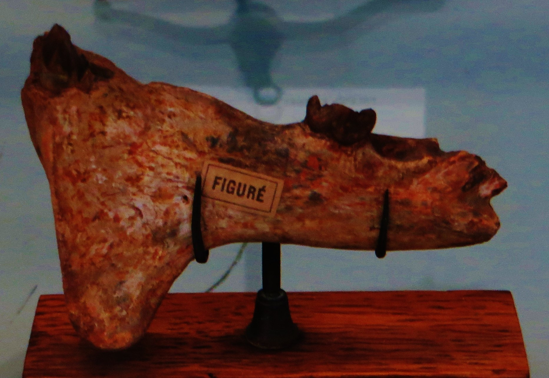 crop of file in file name